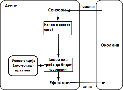 Intelligent agent